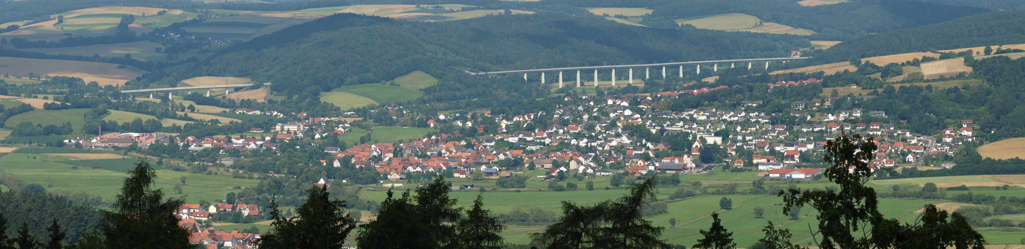 Panoramic view of village Niederaula and it's surrounding area.